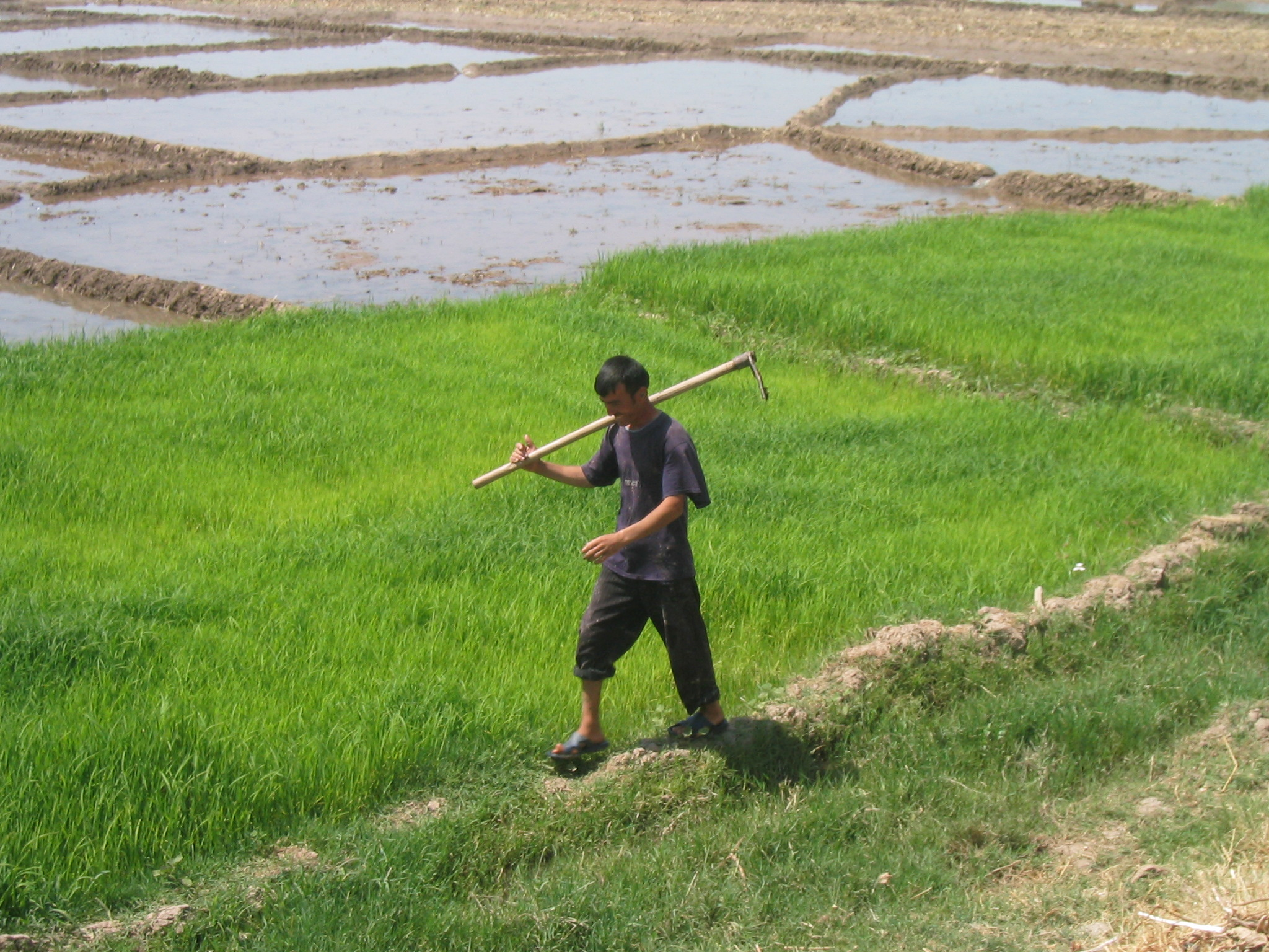 Peasant returning from rice fields, Tursunzoda district, western Tajikistan